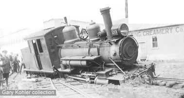 Sandy River and Rangeley Lakes Railroad (SR&RL Railroad) No.20 Built: 1903 Cylinders: 12" x 16" Driving wheels: 33" Total weight: 57,950lbs Tractive force: 8,307lbs Tank capacity: 800 gallons Formerly: No.7 of the Eustis RR Retired: 1920-22 Scrapped: 1935